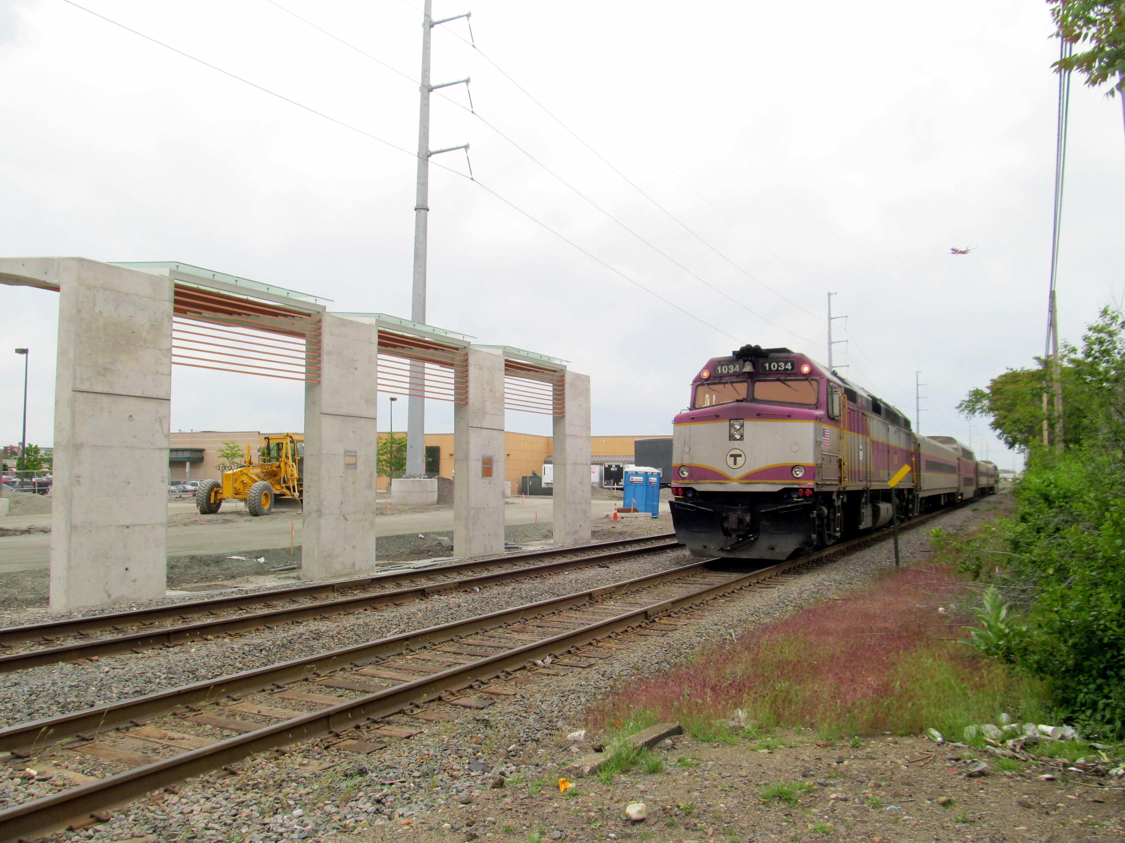 A commuter rail train passes the under-construction Chelsea station in June 2017. Construction had not yet begun on commuter rail platforms at the site.